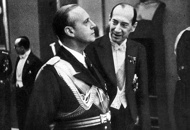 Photo from last Joachim Ribentropp official visit in Warsaw January 1939. Ribbentrop with Minister of Foreign Affairs of Poland Józef Beck